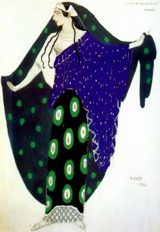 Léon Bakst, La danseuse Ida Rubinstein (1885-1960) en Hélène de Sparte, 1912. Act 4. 1912. Pencil, watercolor and silver paint (laid down). 27 x 19,6 cm. Thyssen-Bornemisza Collection. Lugano.